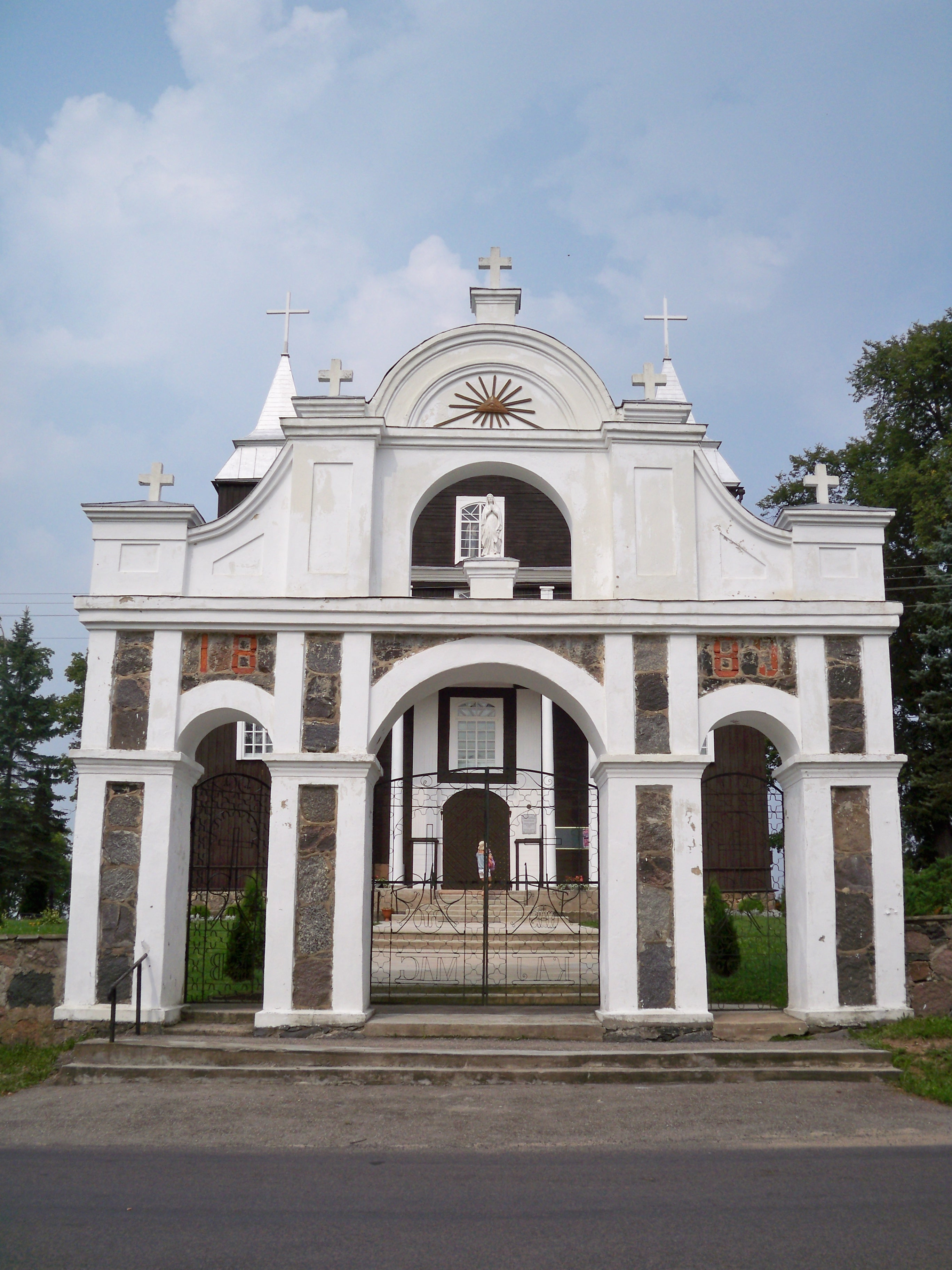 Antazavė church.